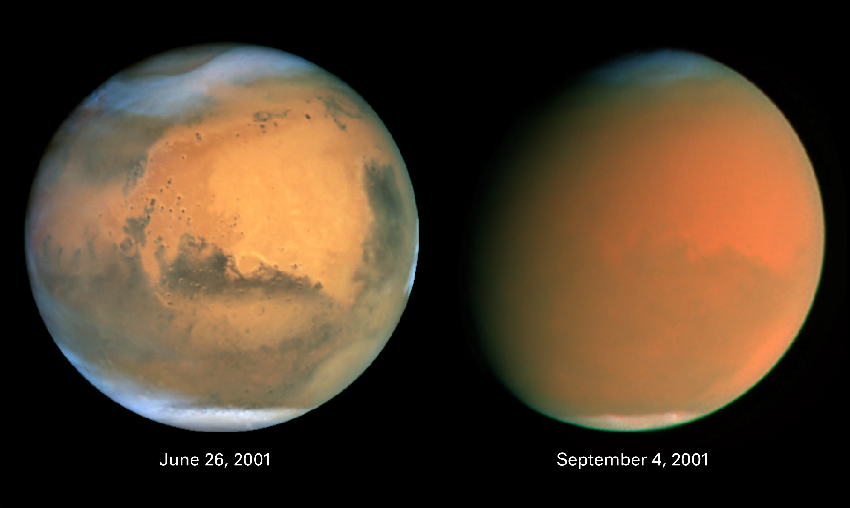 Two dramatically different faces of our Red Planet neighbor appear in these comparison images showing how a global dust storm engulfed Mars with the onset of Martian spring in the Southern Hemisphere. When NASA's Hubble Space Telescope imaged Mars in June, the seeds of the storm were caught brewing in the giant Hellas Basin (oval at 4 o'clock position on disk) and in another storm at the northern polar cap. When Hubble photographed Mars in early September, the storm had already been raging across the planet for nearly two months obscuring all surface features. The fine airborne dust blocks a significant amount of sunlight from reaching the Martian surface. Because the airborne dust is absorbing this sunlight, it heats the upper atmosphere. Seasonal global Mars dust storms have been observed from telescopes for over a century, but this is the biggest storm ever seen in the past several decades. Mars looks gibbous in the right photograph because is it 26 million miles farther from Earth than in the left photo (though the pictures have been scaled to the same angular size), and our viewing angle has changed. The left picture was taken when Mars was near its closest approach to Earth for 2001 (an event called opposition); at that point the disk of Mars was fully illuminated as seen from Earth because Mars was exactly opposite the Sun. Both images are in natural color, taken with Hubble's Wide Field Planetary Camera 2.